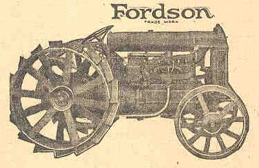 Fordson Model F tractor.